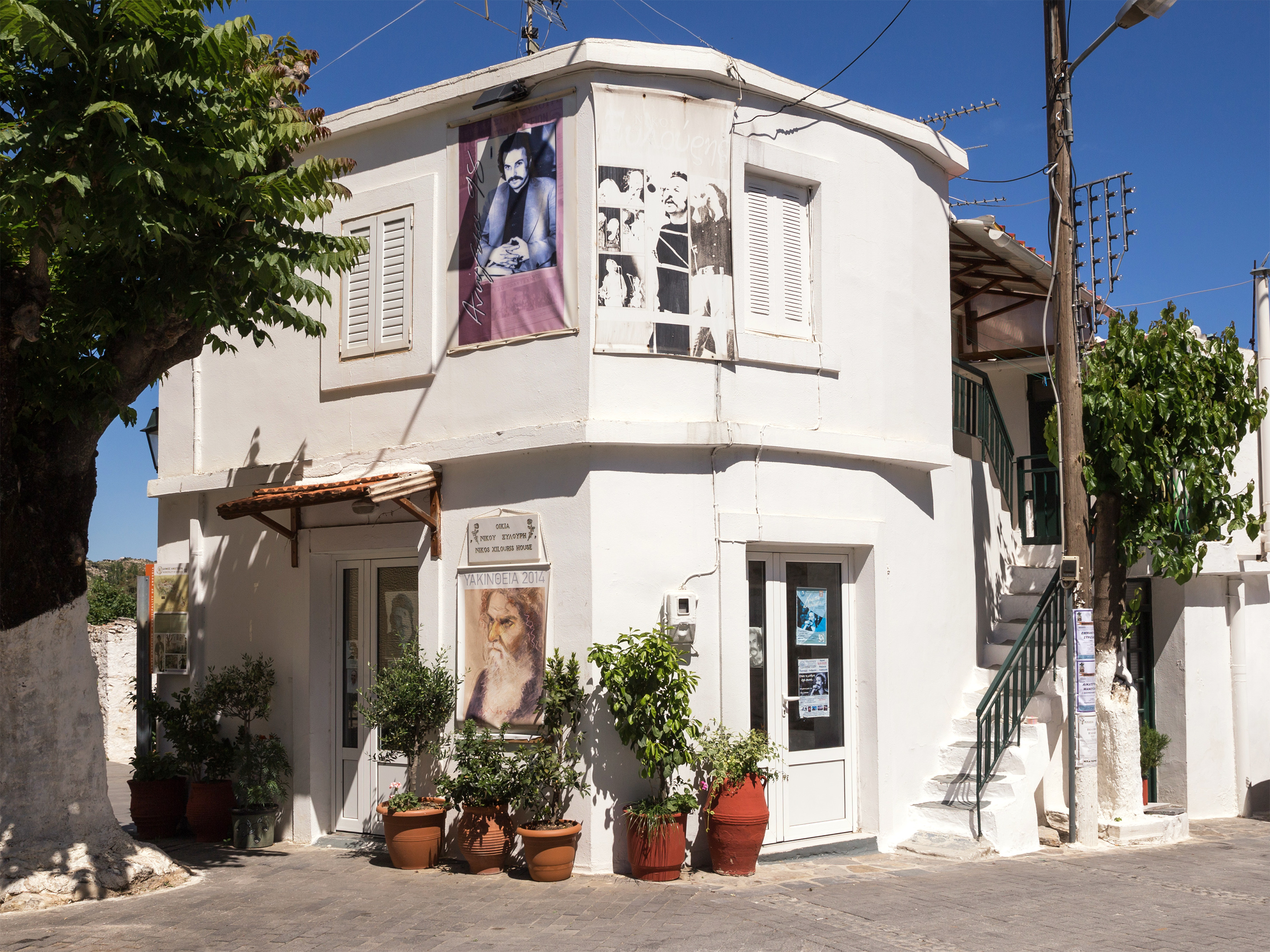 Anogeia (Crete), Nikos Xilouris House